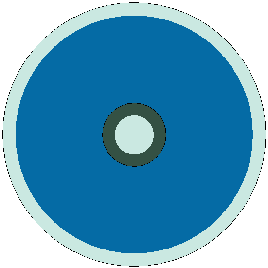 Shieldpattern of Legio Secunda Iulia Alpina (also Legio II Iulia Alpina) in early 5th century. Source: Notitia Dignitatum Occ V.